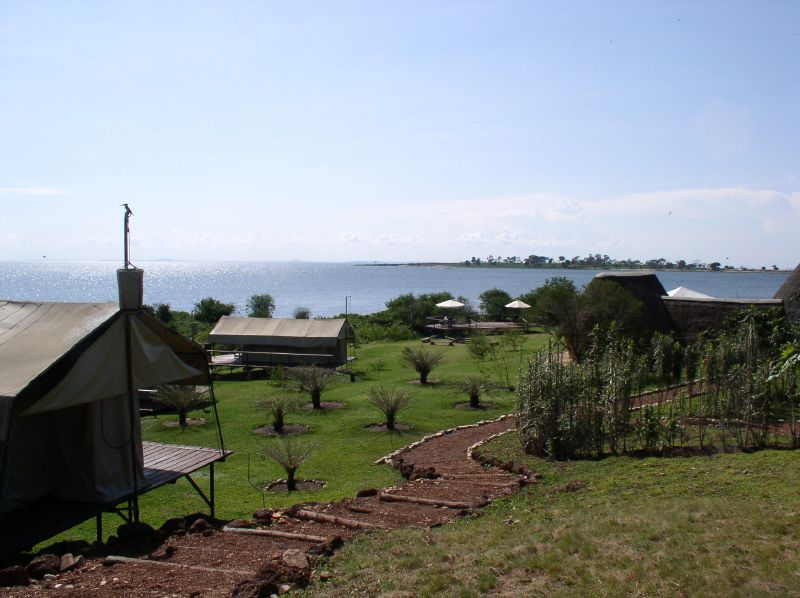 Ngamba Island Chimpanzee Sanctuary, lake Victoria, Uganda. The camp.